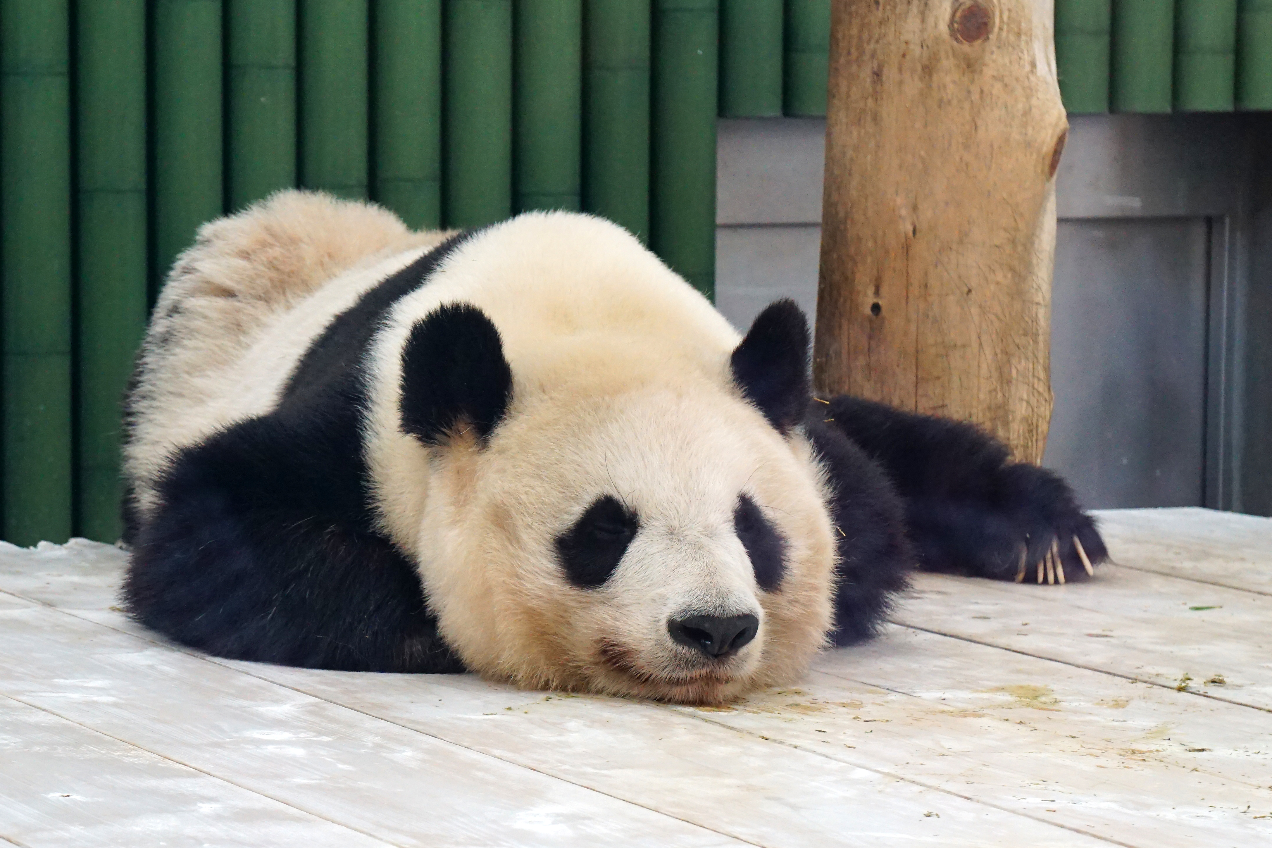 Kobe Oji Zoo in Kobe, Hyogo prefecture, Japan